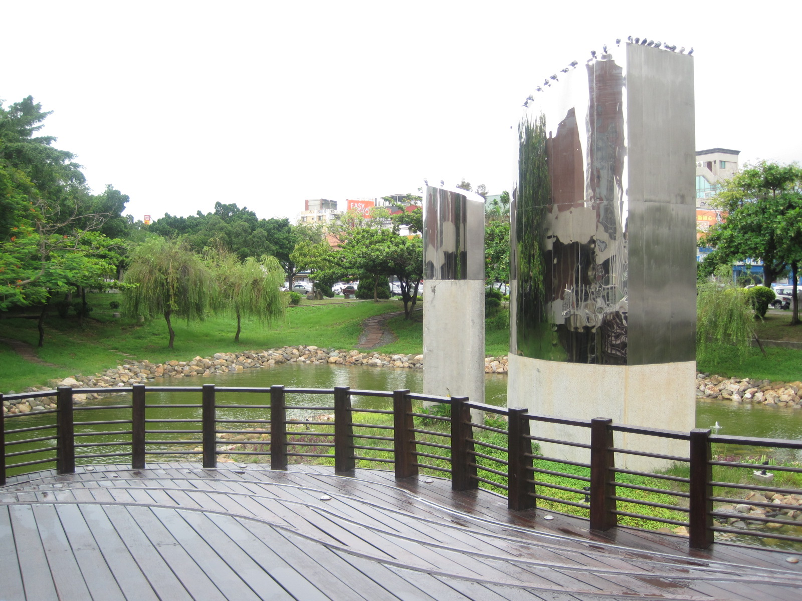 Tainan Municipal Cultural Center